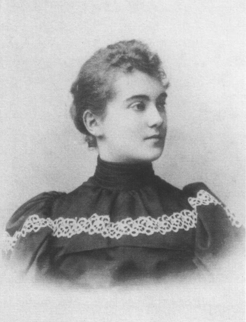 Zofia Rostworowska (1873-1953), Aleksander Oskierka (1830-1911)'s daughter, Tadeusz Rostworowski (1860-1928)'s wife. Before 1917 AD.